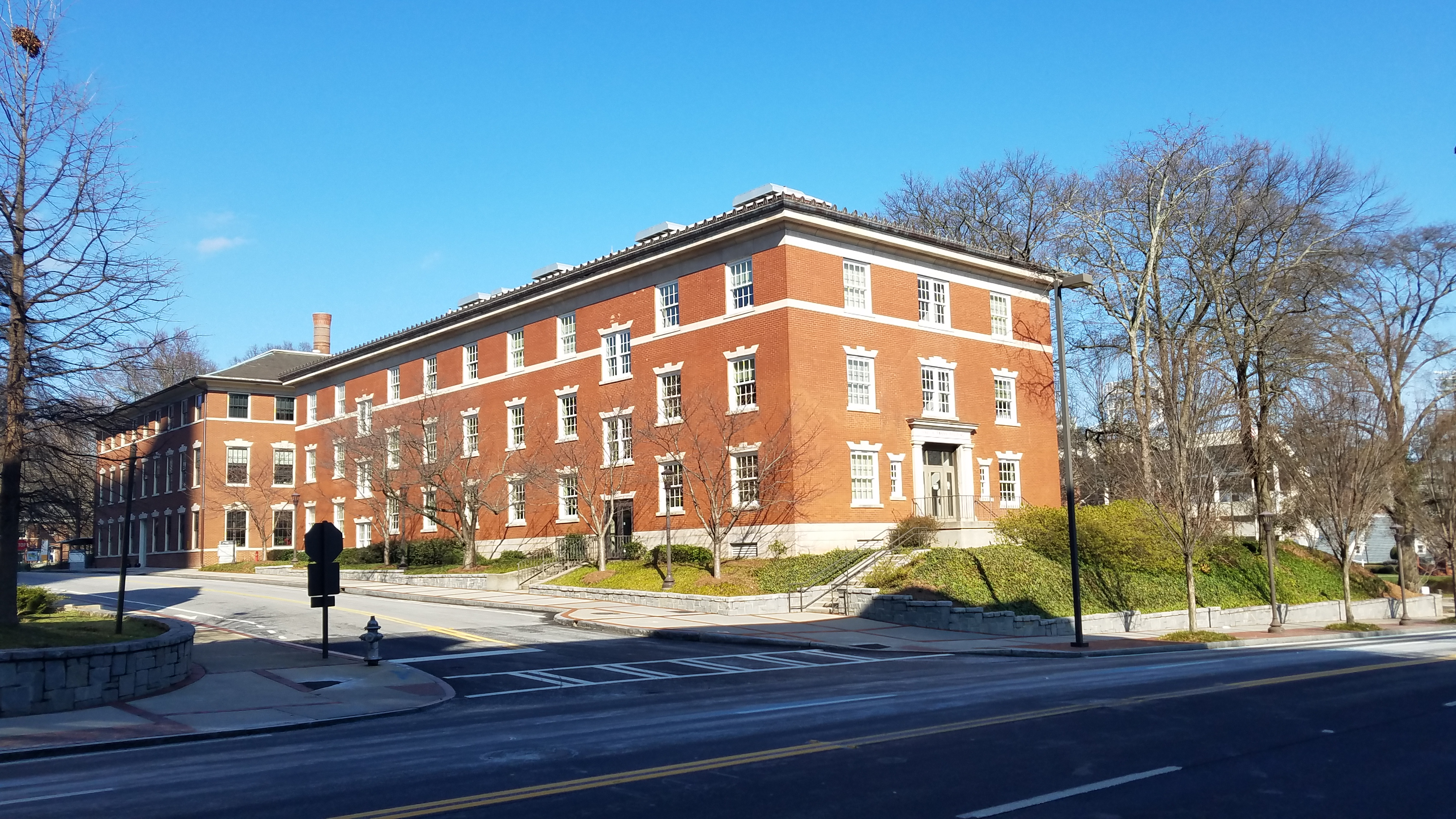 Swann Building on the campus of the Georgia Institute of Technology, Atlanta, Georgia, United States